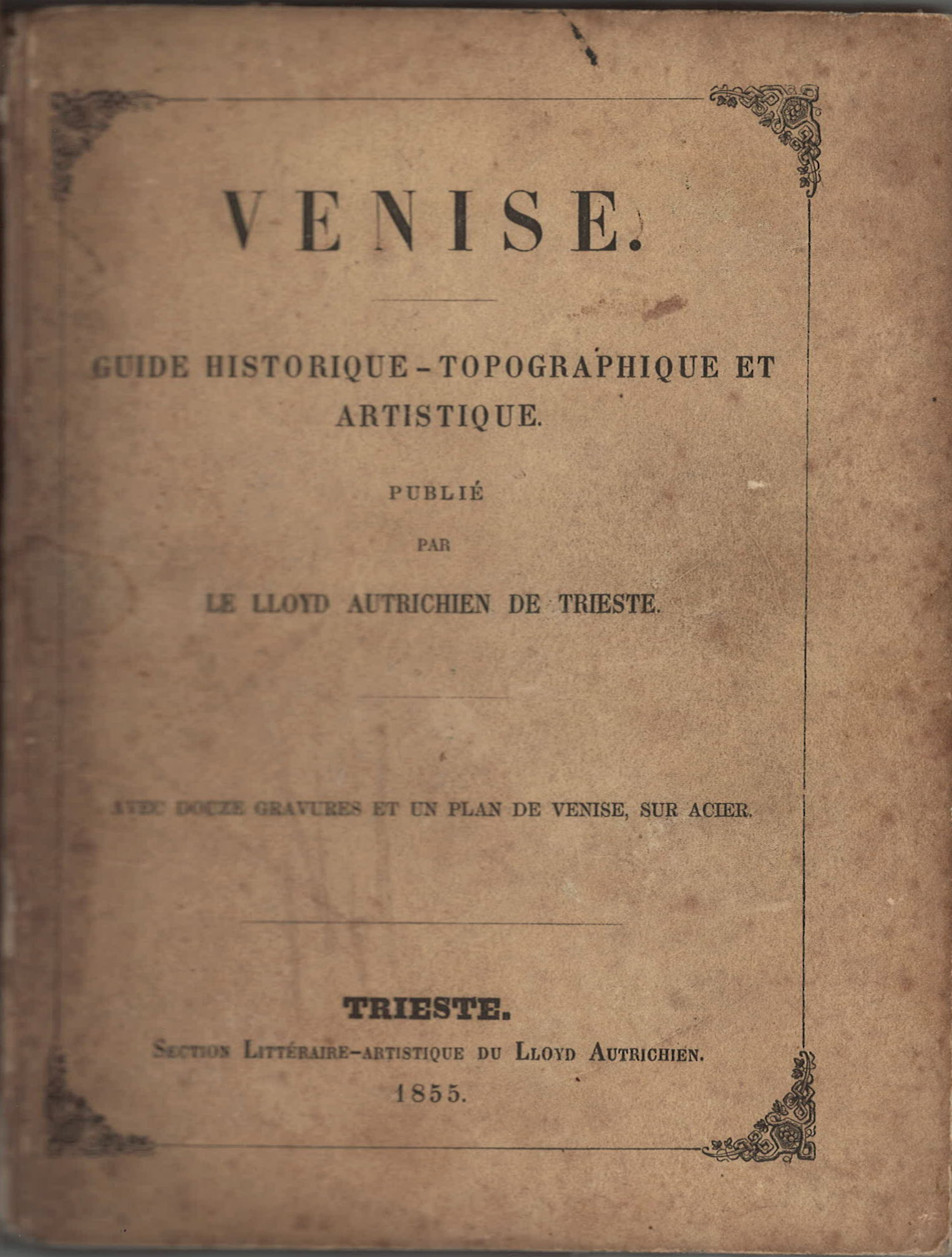 Frontcover of the Guide "Venise" (Triest 1855)